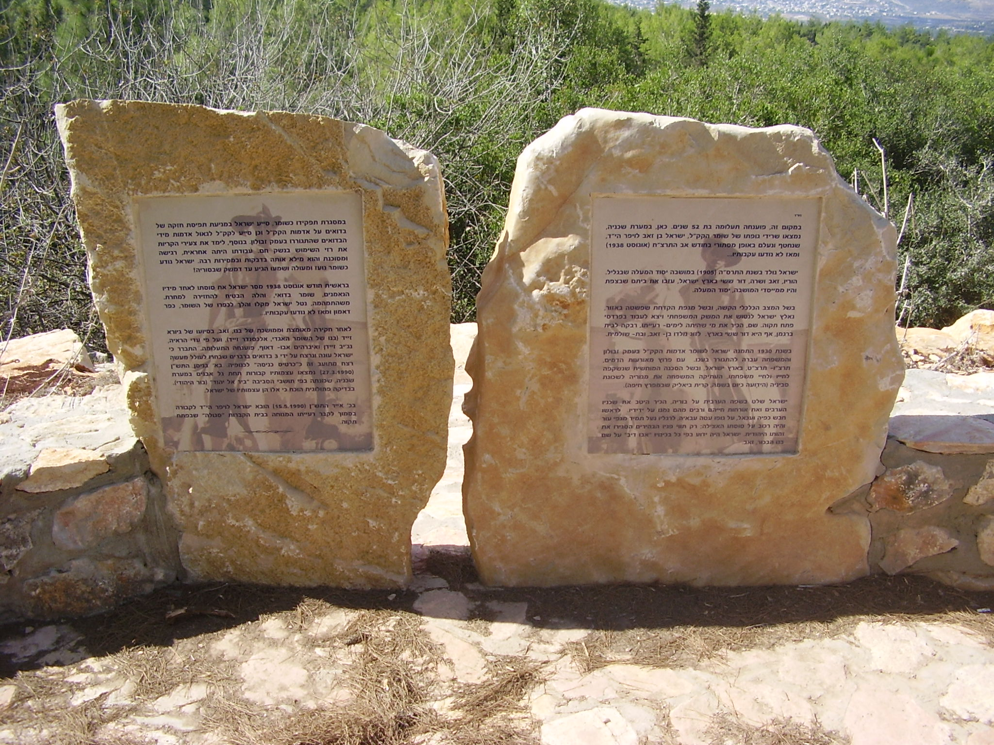 israel ben ze'ev memorial in shhkania promenade in lower galilee